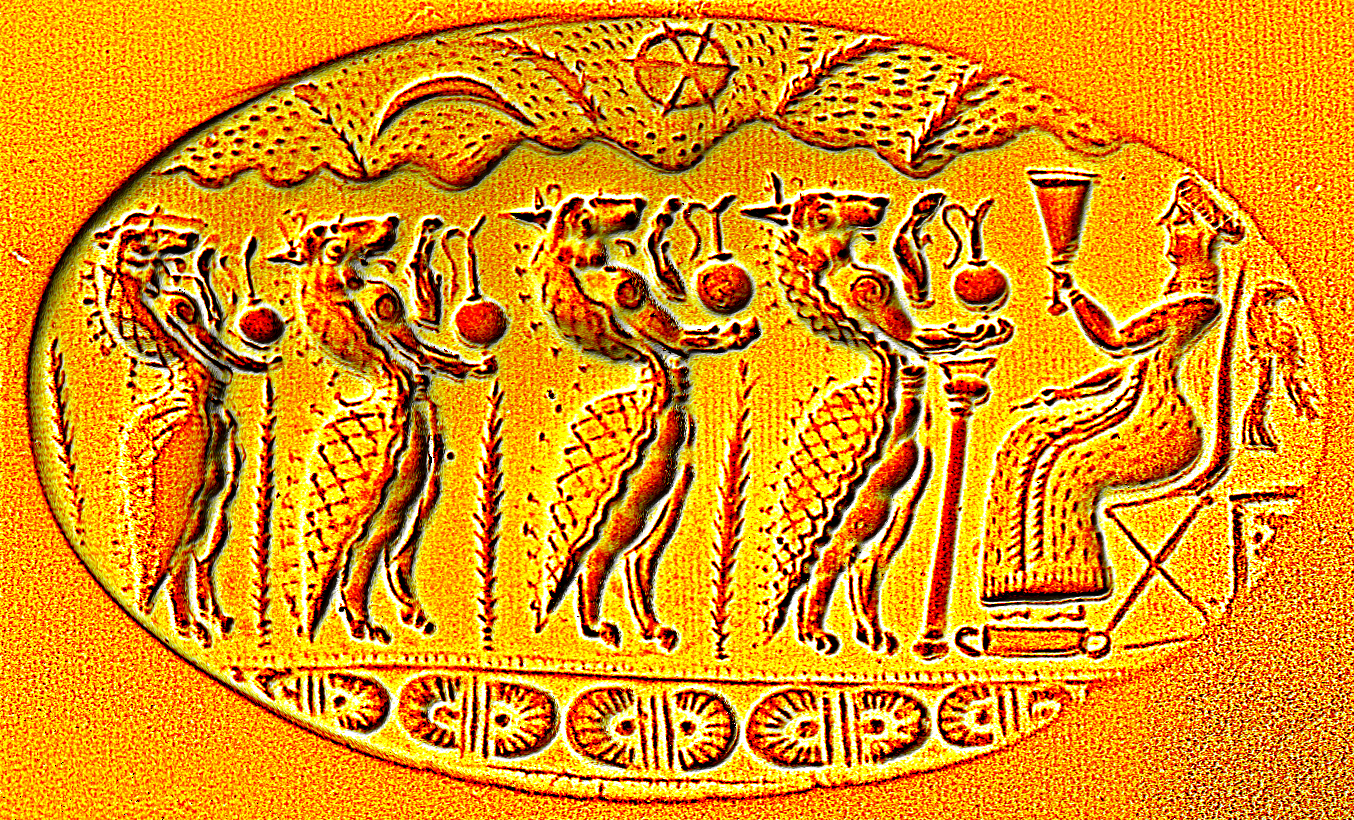 Visualization of a 3D-Scan of sealing NM6208 hosted in the Corpus der minoischen und mykenischen Siegel (CMS) catalogued as CMS-I-179 at the Heidelberg University computed using the GigaMesh Software Framework.